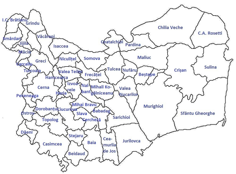 new version